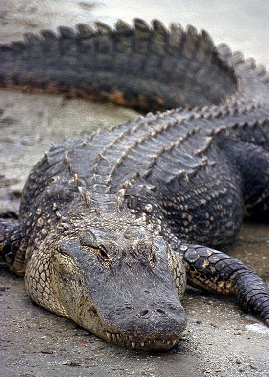 Florida alligator.